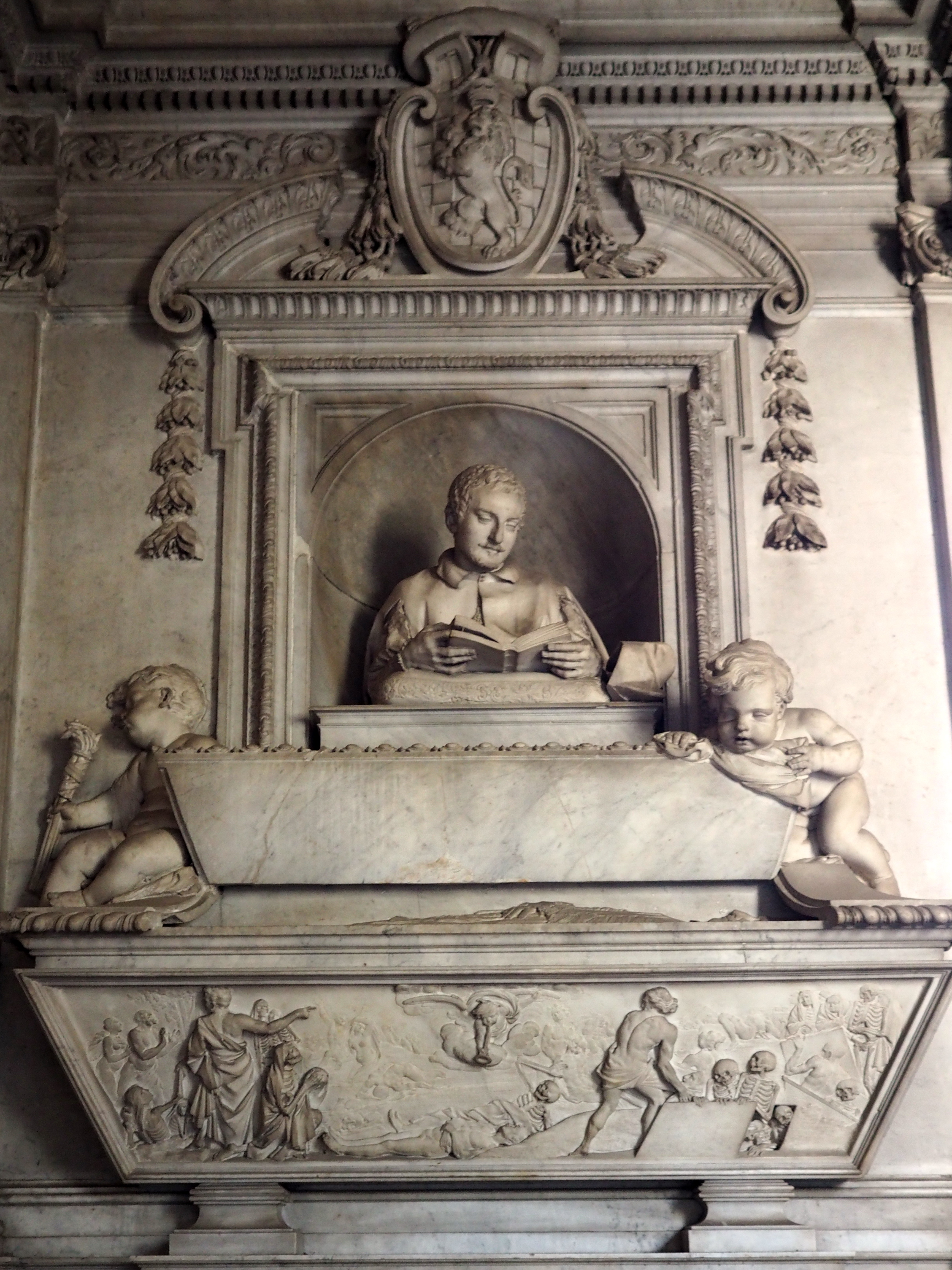 San Pietro in Montorio (Rome); Cappella Raimondi; Monument for Girolamo Raimondi